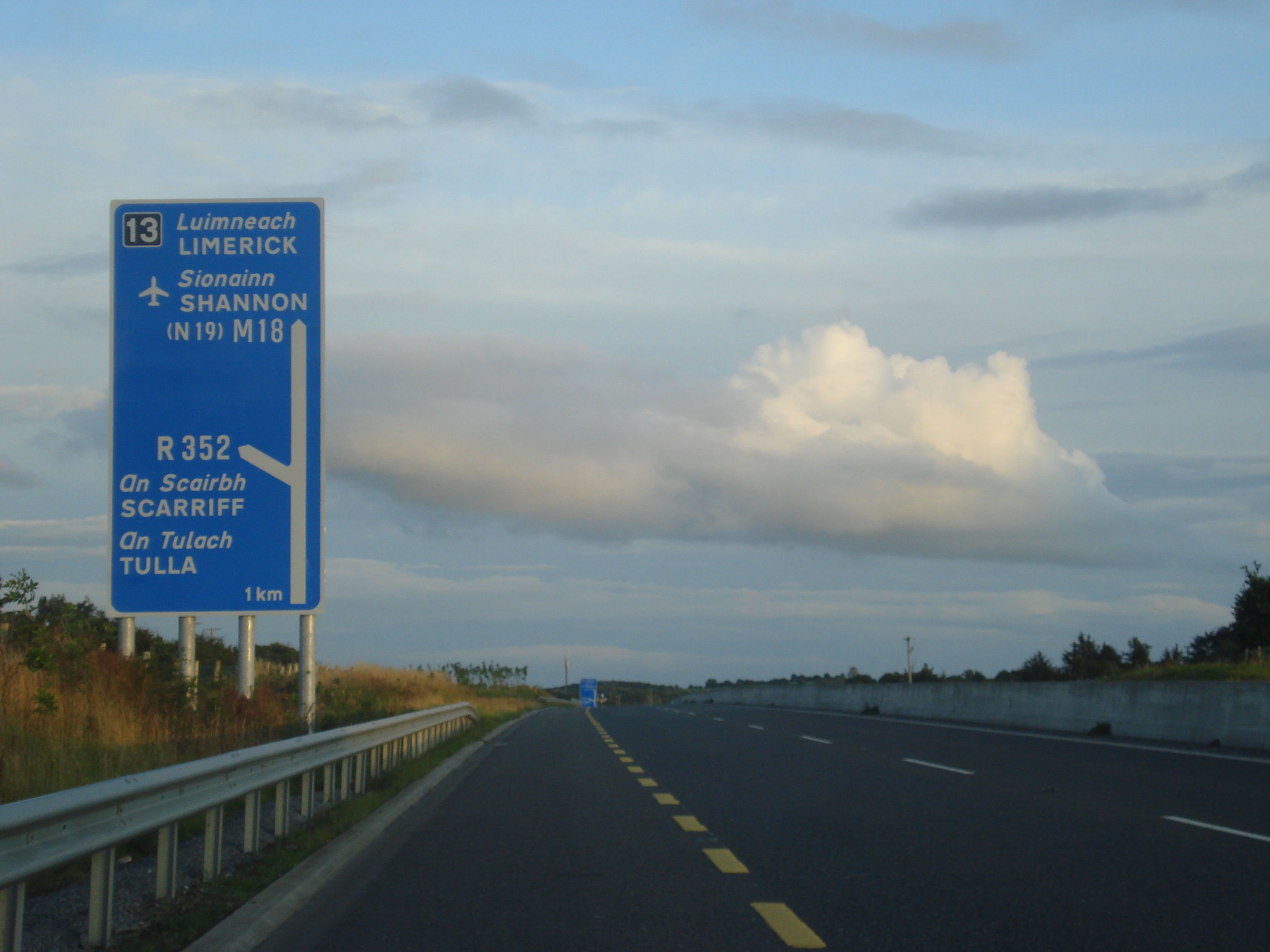 M18 Motorway Ireland J13 ADS